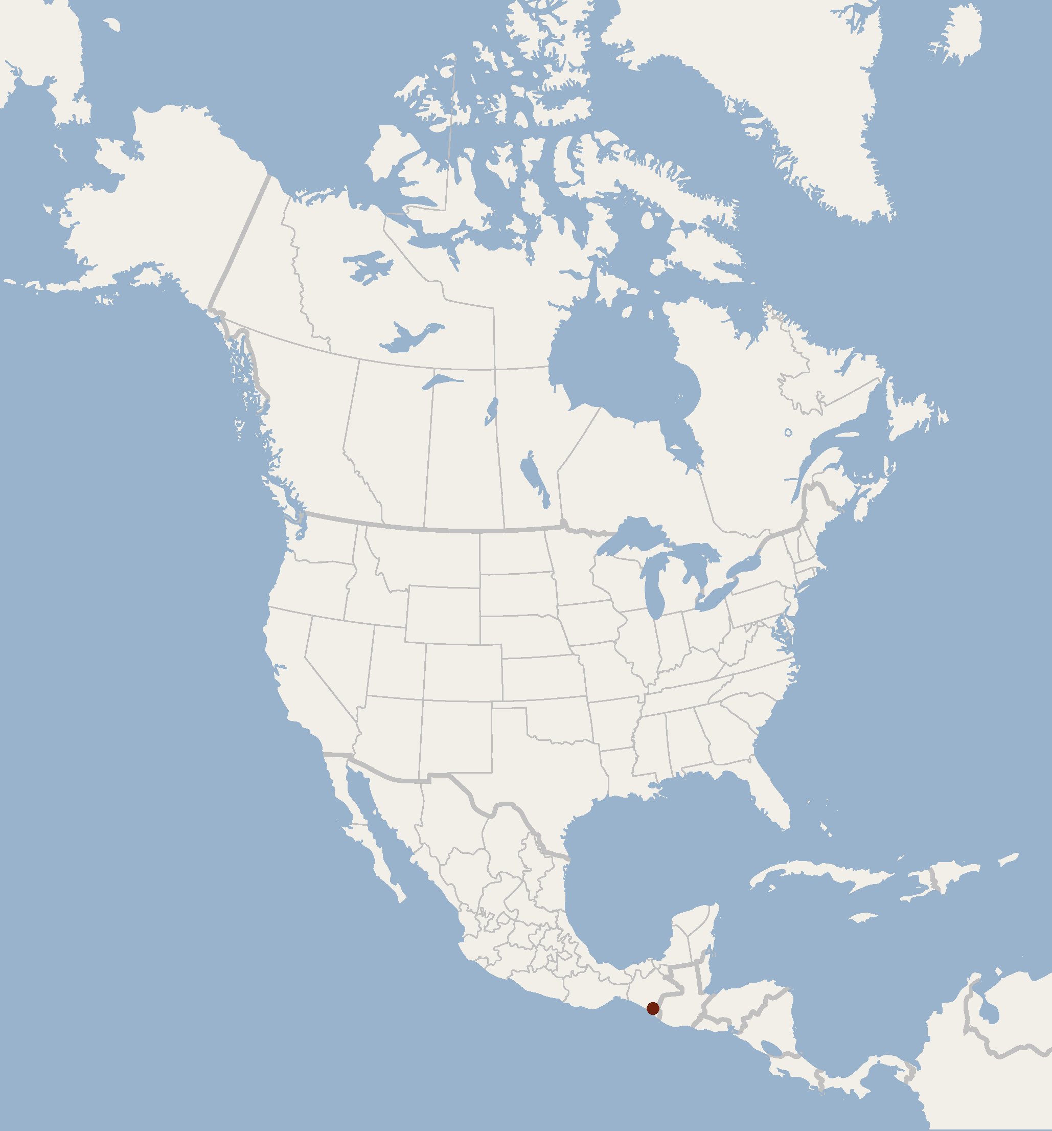 Geographical distribution of Rhogeessa genowaysi according to Museum specimens.